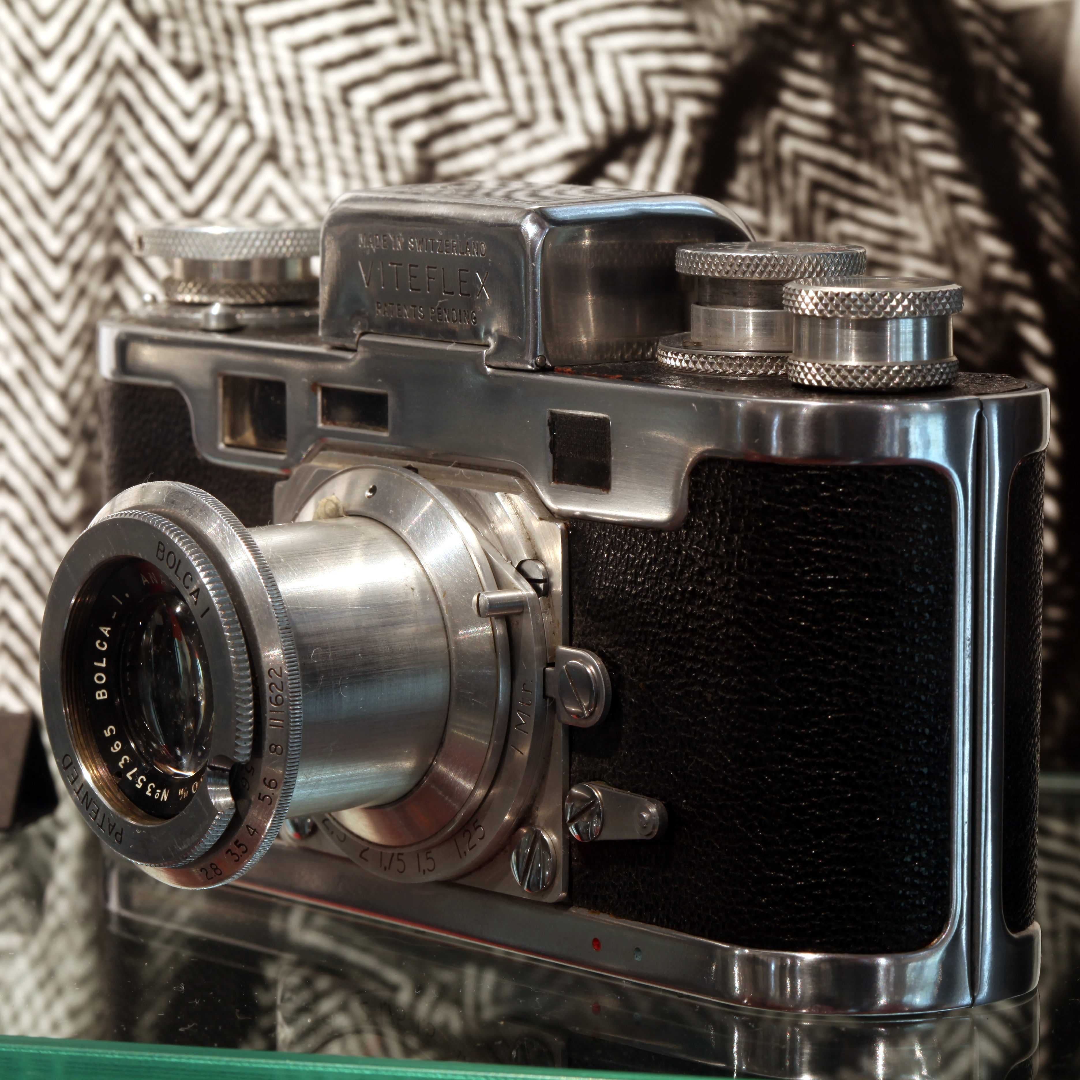 Viteflex. On display at Vevey photography museum.